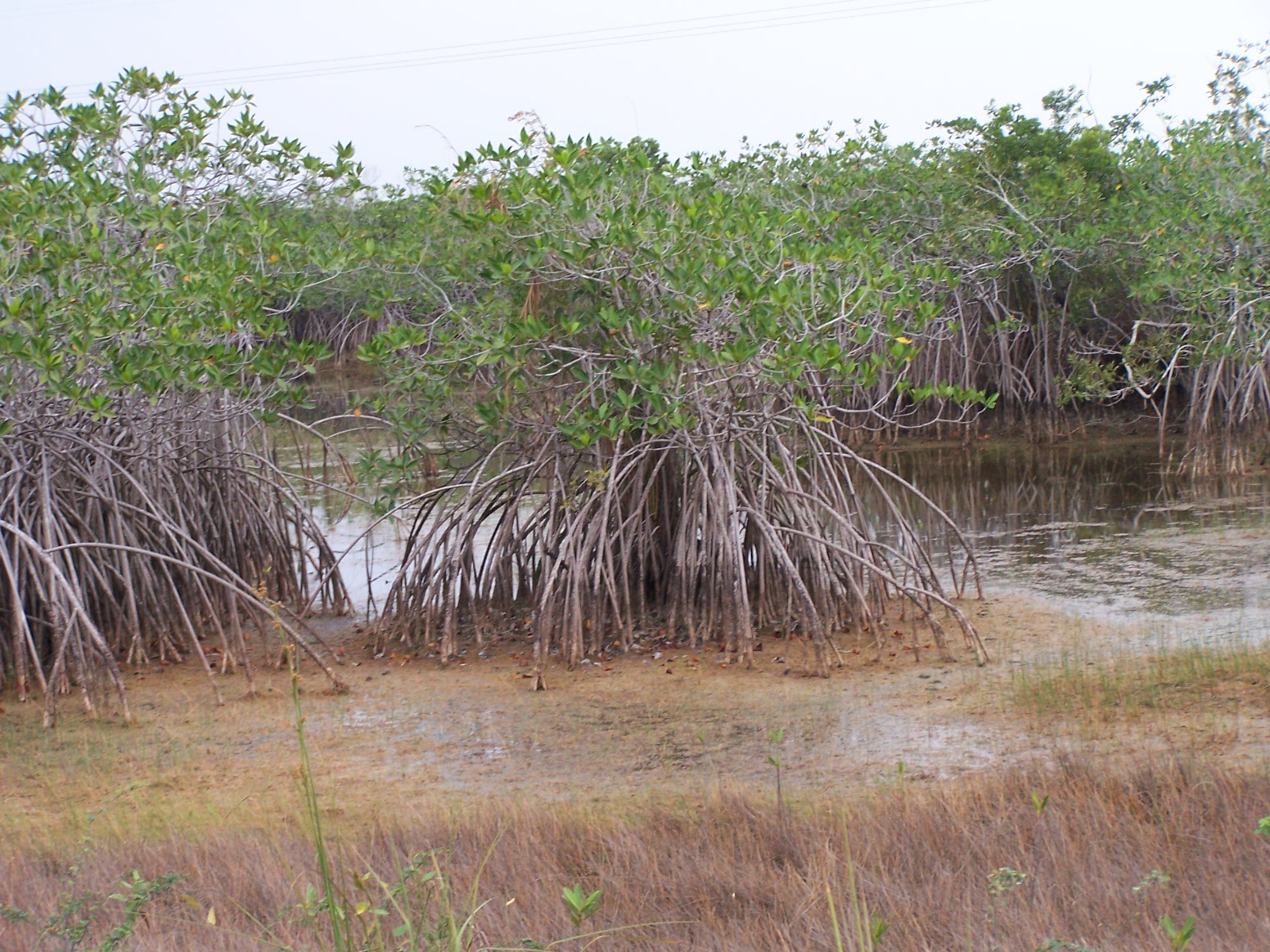 Red mangrove (Rhizophora mangle) in Belize